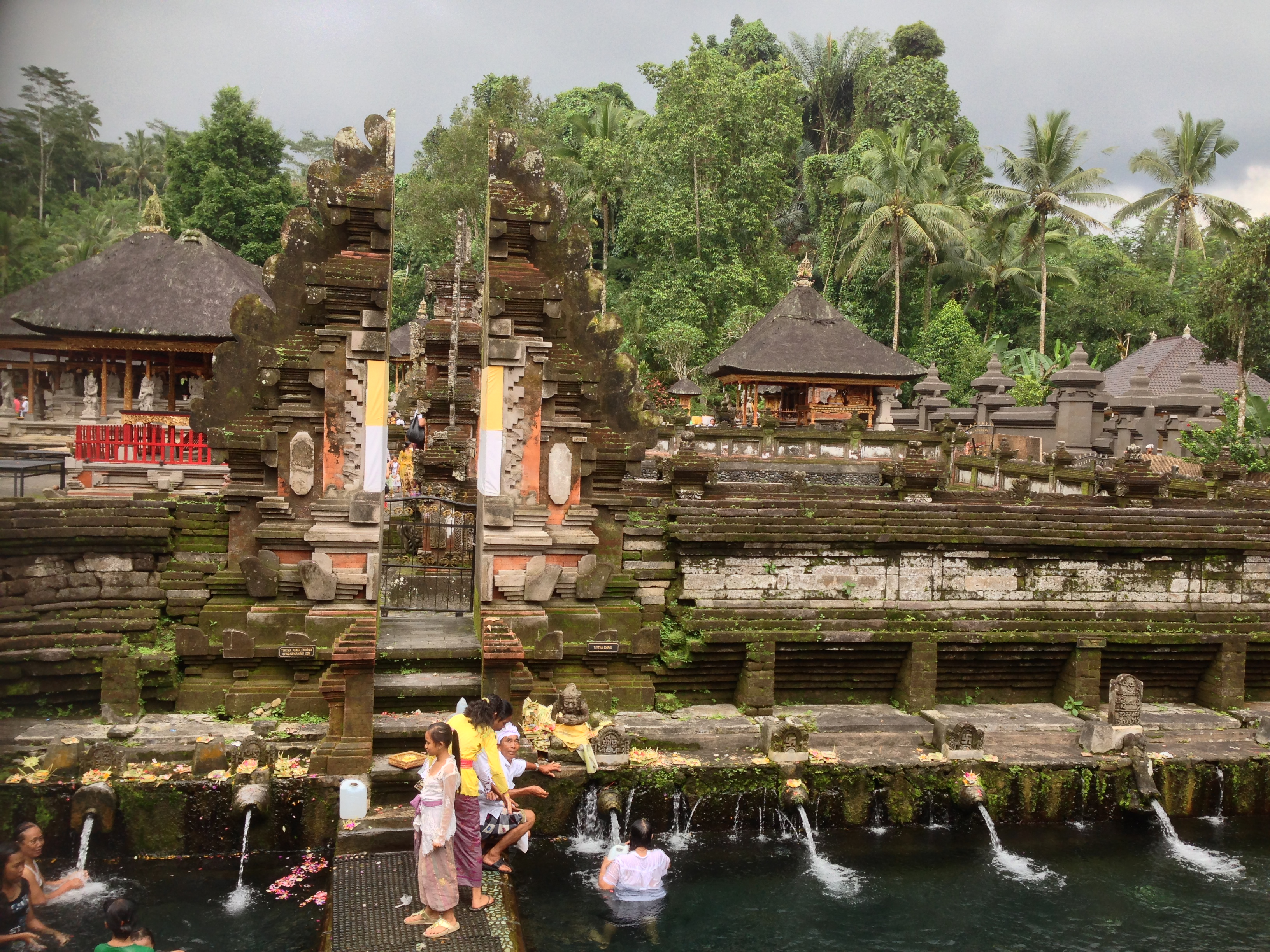 A beautiful and old Hindu temple which hosts rituals. The temple has holy springs in which devotees bathe.